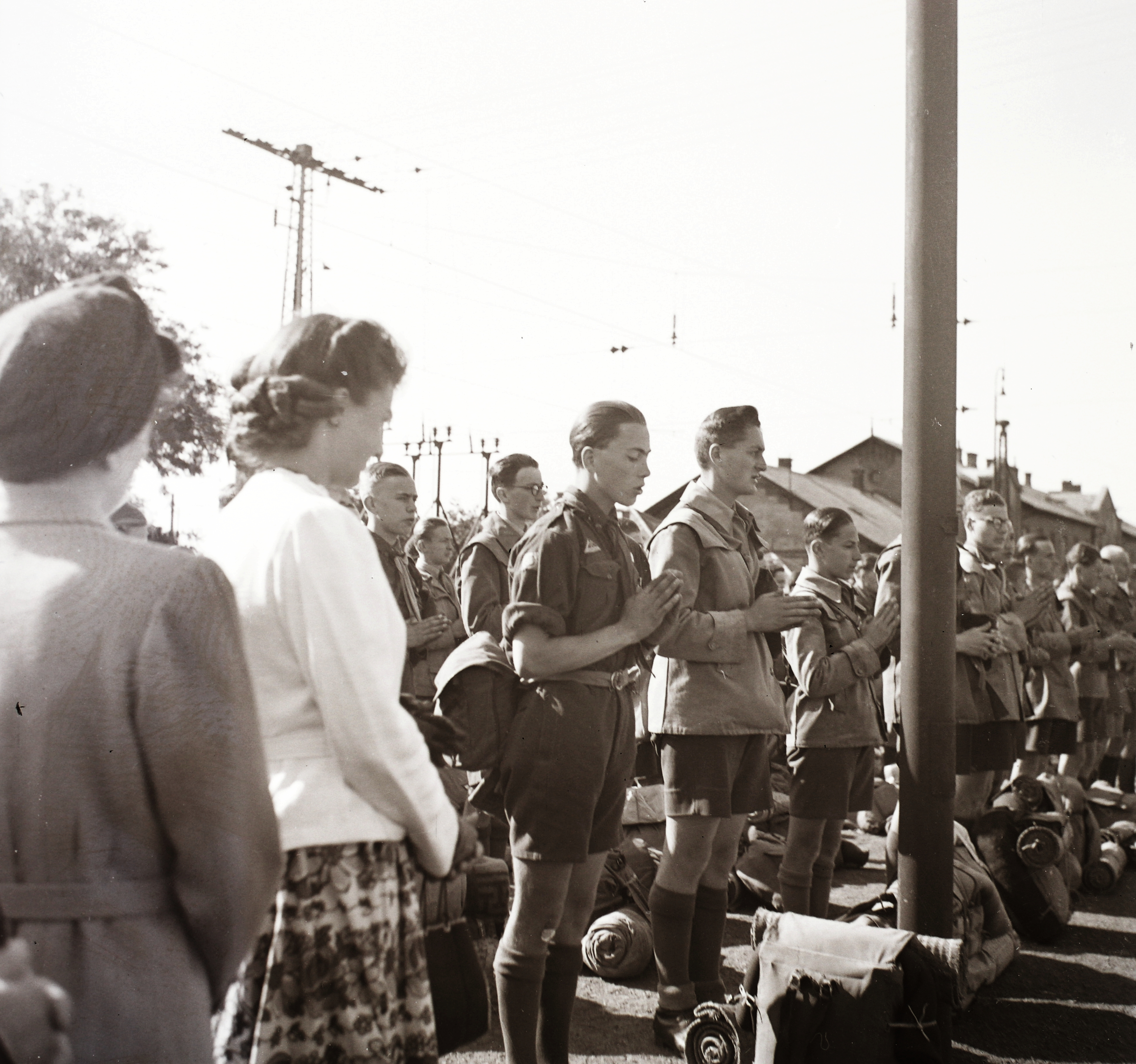 Scouts pray at Kelenföld railway station Location: Hungary, Budapest XI. Tags: kids, uniform, shorts, knee snocks, prayer, backpack, scouting, Budapest Title: Kelenföldi pályaudvar.